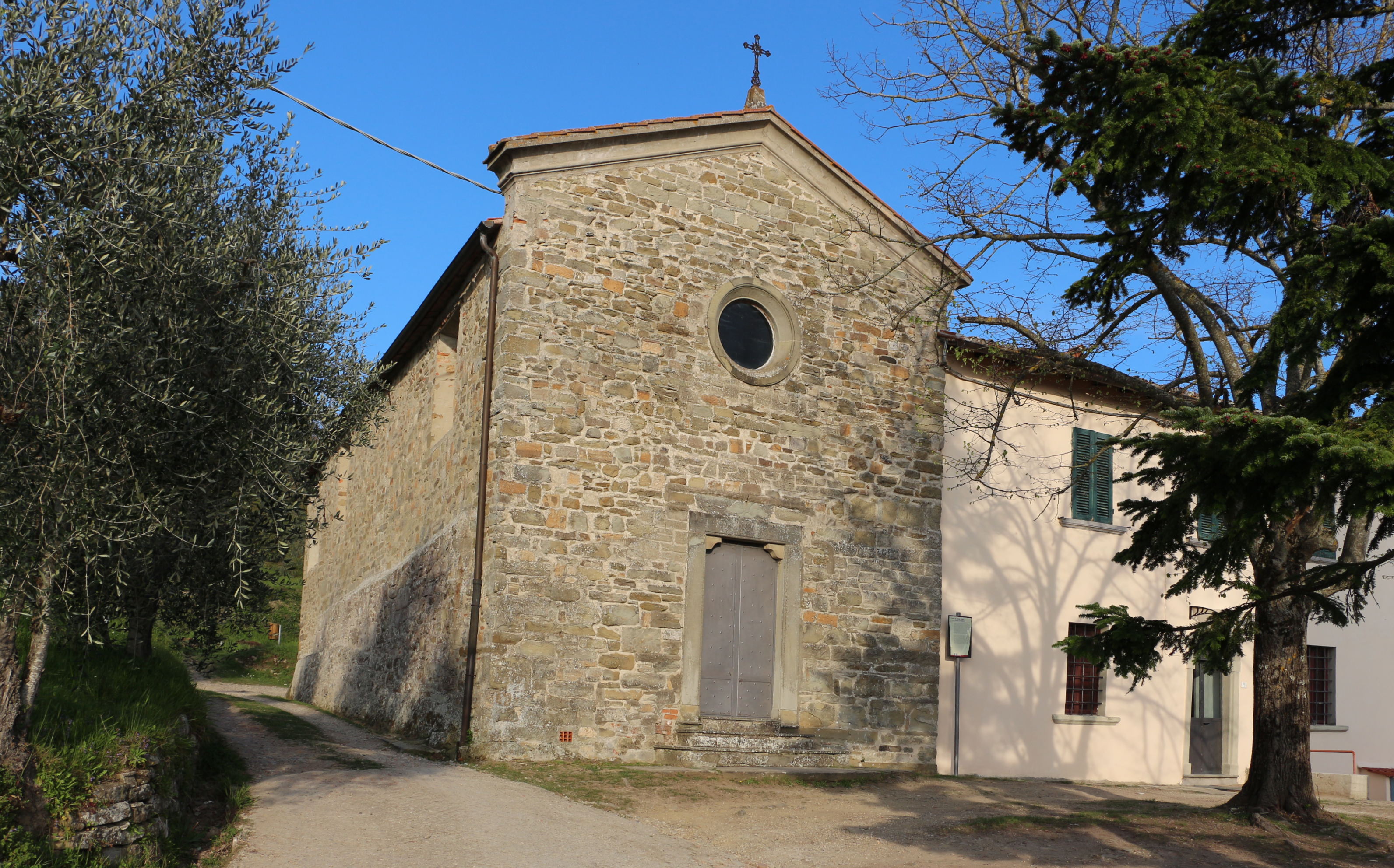 Rufina